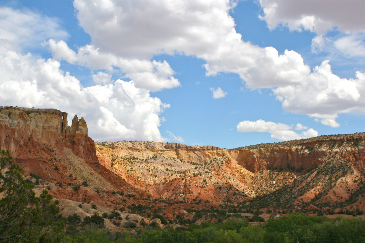 Ghost Ranch redrock cliffs near Abiquiu, New Mexico